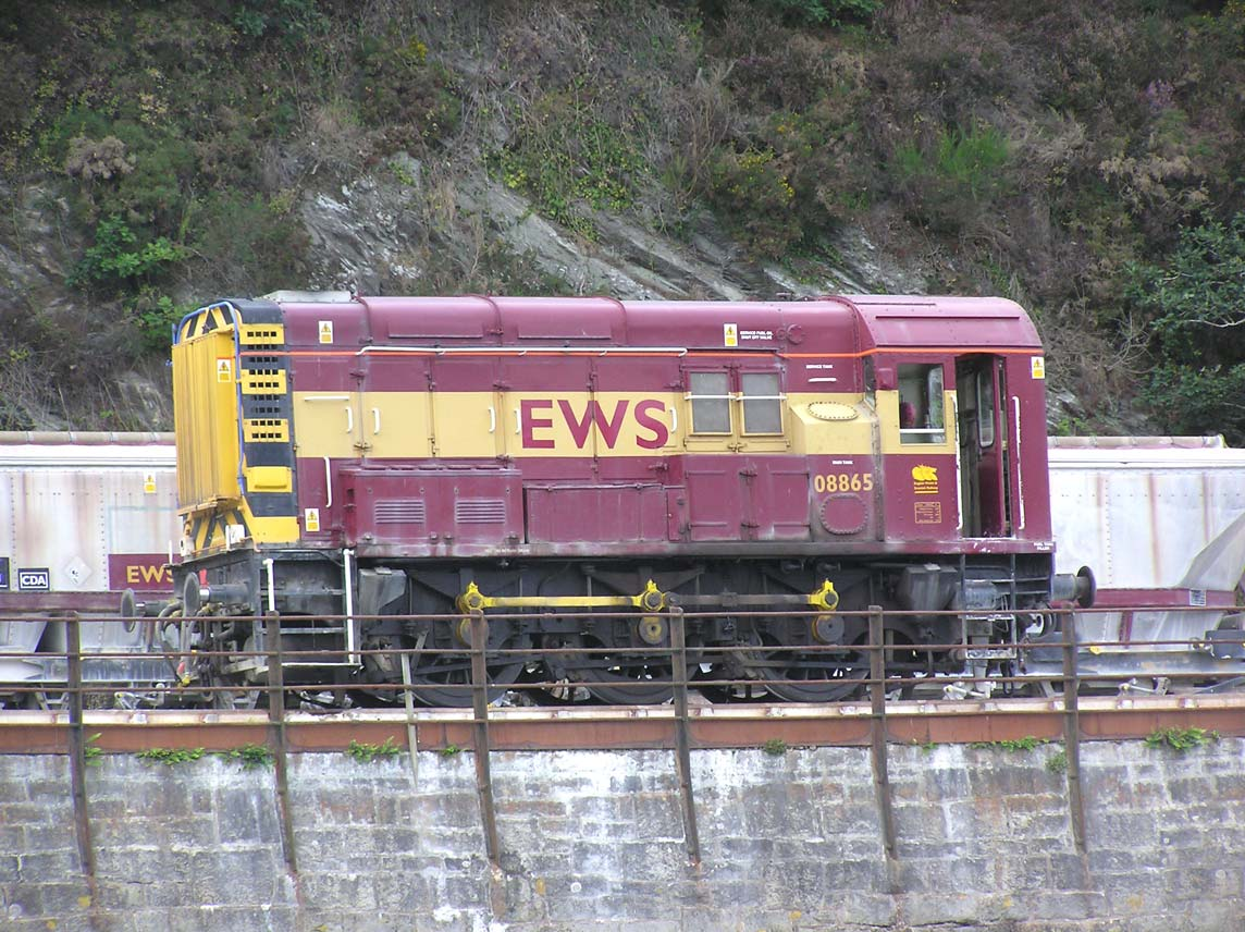 EWS British Rail Class 08 diesel shunter 08865 at Fowey, Cornwall, Great Britain